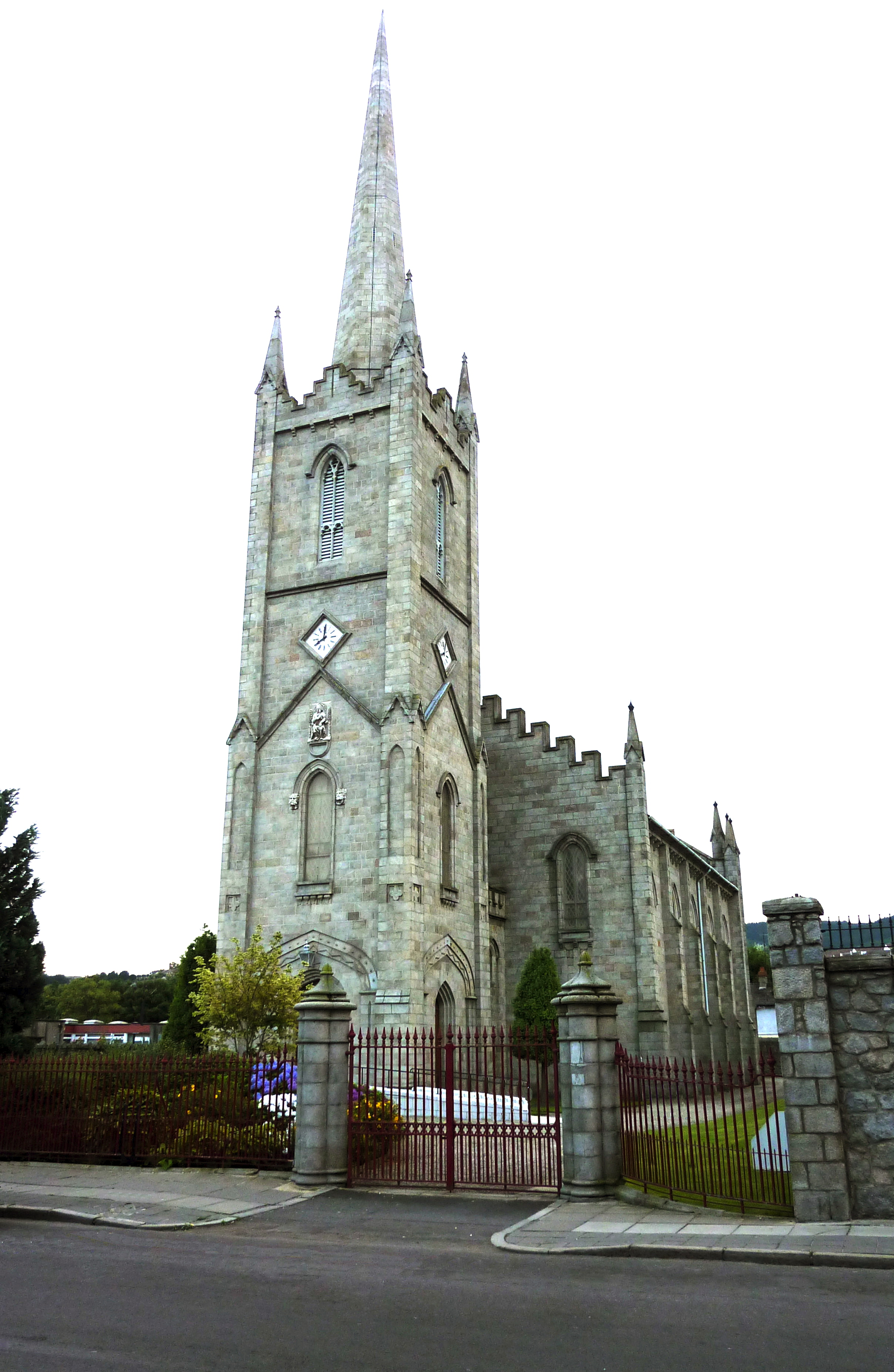 St. Mary’s Church in Newry. 2010.